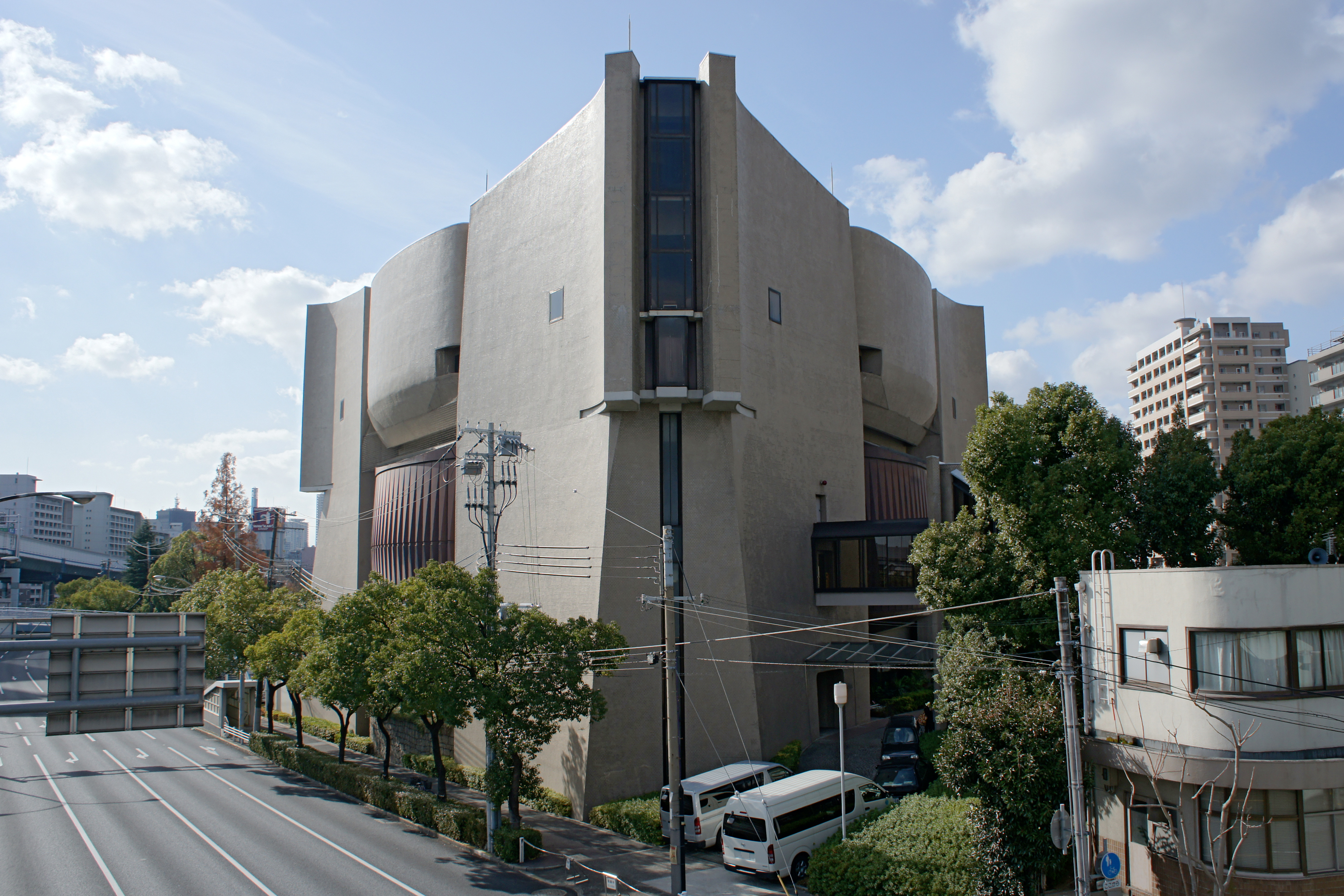 Nishiyama_Memorial_Hall in Kobe, Hyogo prefecture, Japan